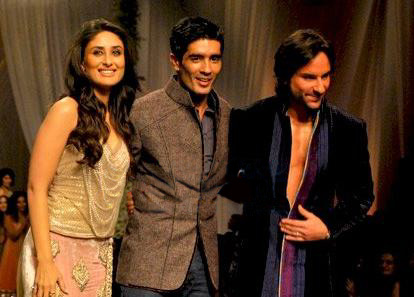 Indian actor Saif Ali Khan along with actress Kareena Kapoor and designer Manish Malhotra at the 2009 India Couture Week